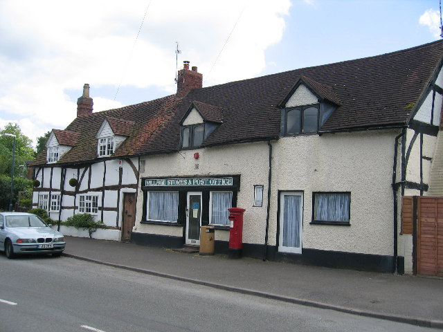 Bishop's Tachbrook. Village Post Office and attached residence, showing the half-timbered architecture prevalent throughout the village.